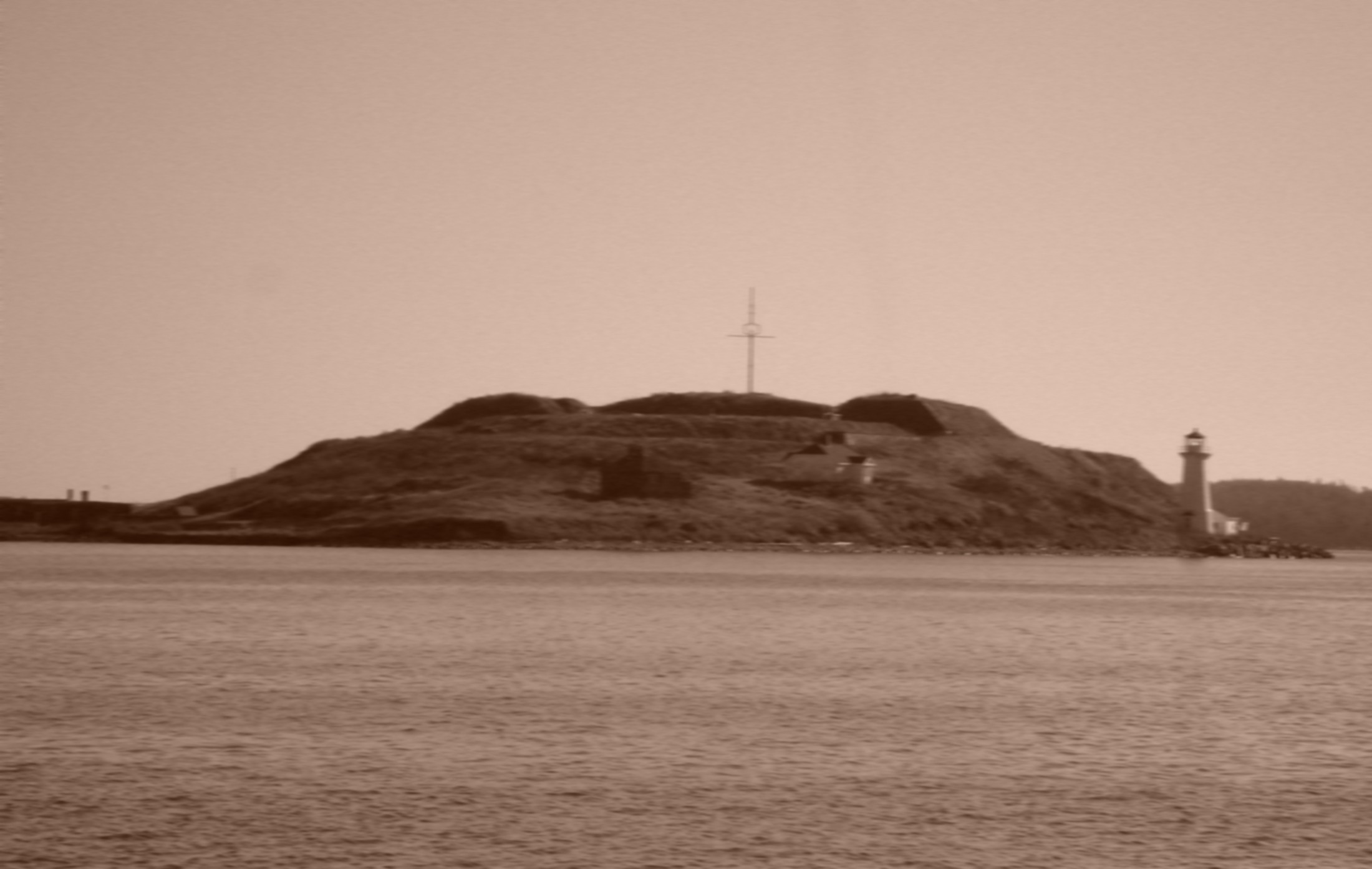 Georges Island, Halifax Nova Scotia. c. 1881.